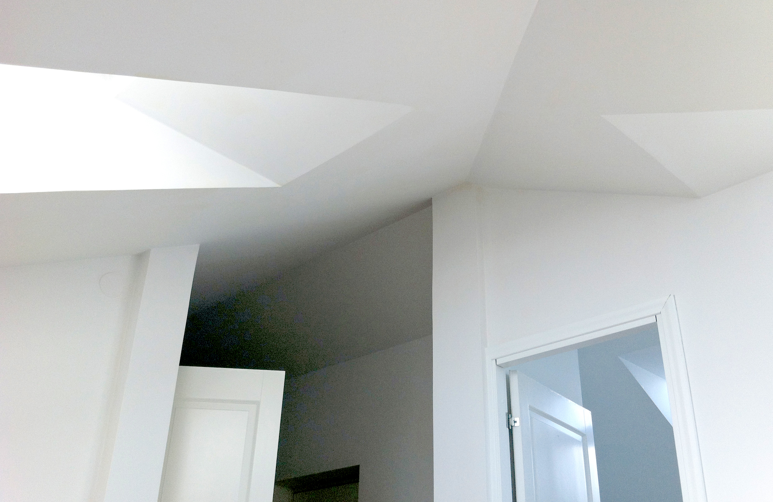 White ceilings and Velux windows in an apartment built in the attic.